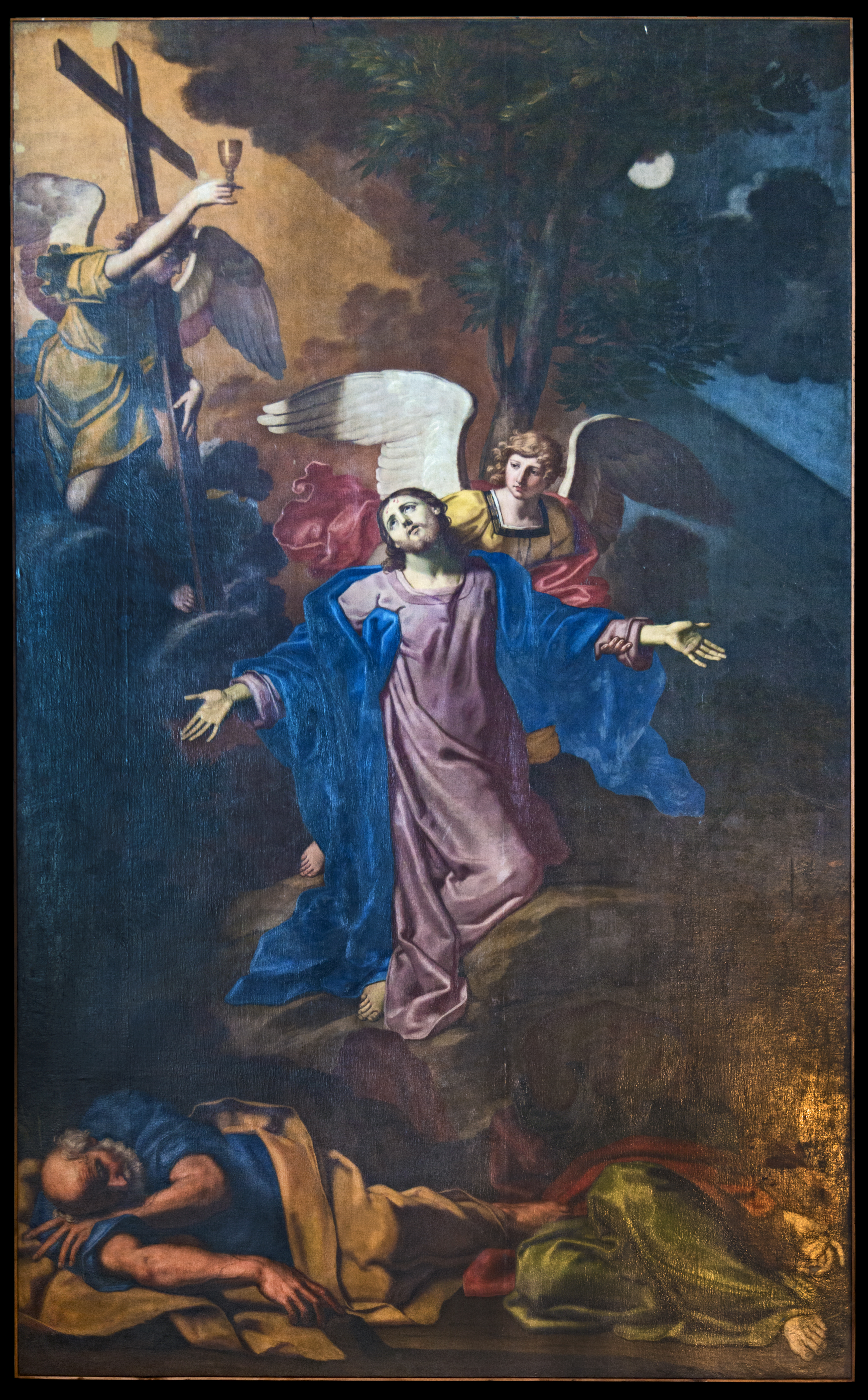 Church of San Zaccaria Venice - Sant’Atanasio chapel - Cristo nell'orto by Michele Desubleo in 1660